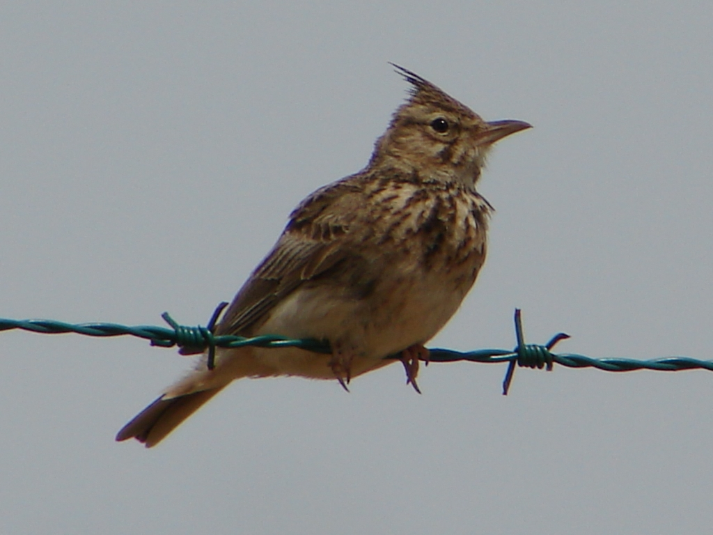 A Crested Lark in the nature park Ria Formosa, Algarve, Portugal.